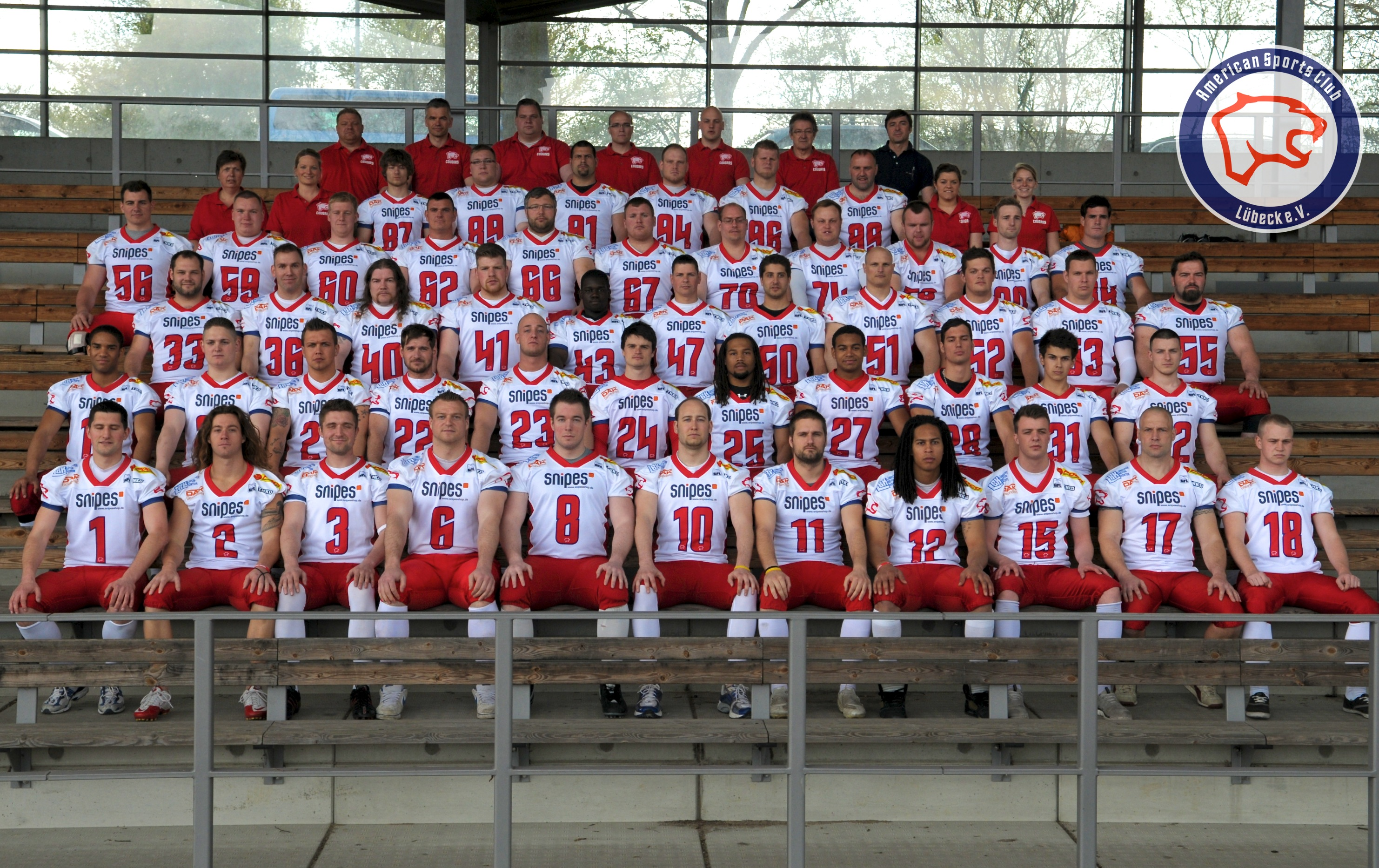 Lübeck Cougars team photo 2012